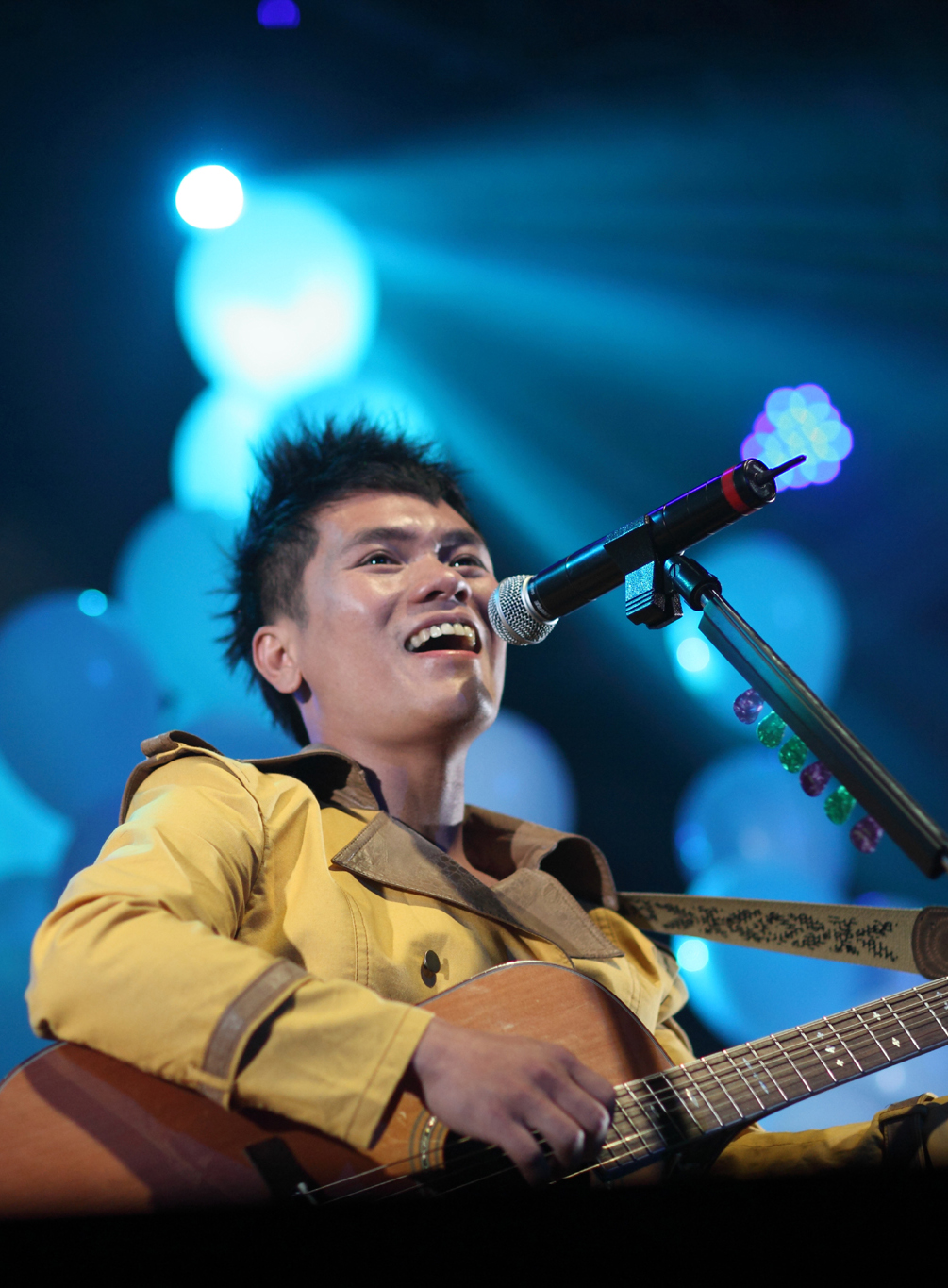 Suming during 風fali concert at Legacy Taipei on April 23, 2011.